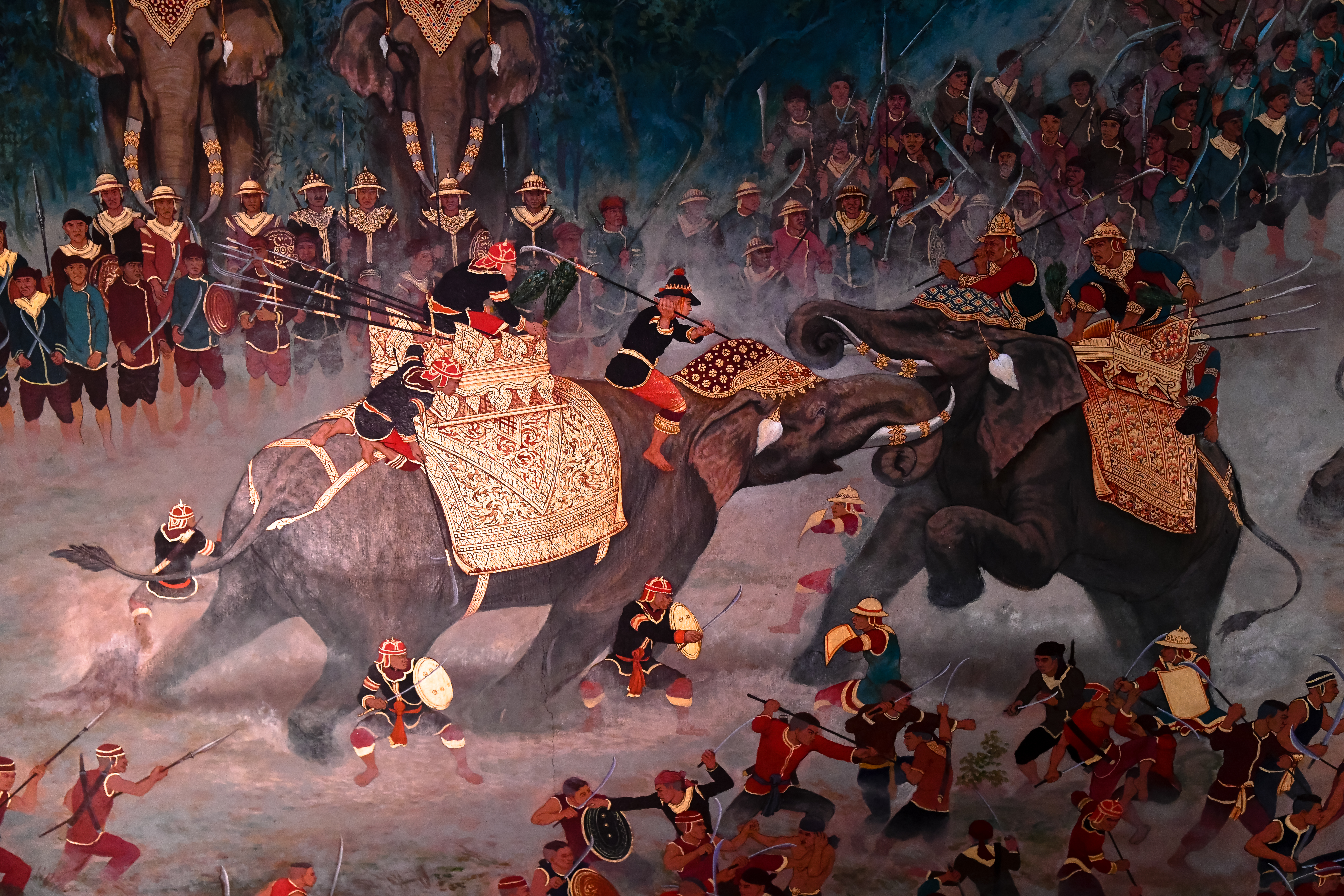 ยุทธหัตถี History of Thailand